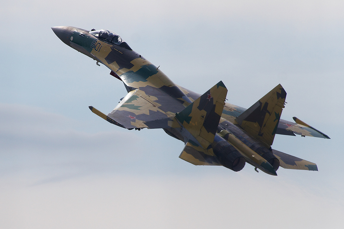 Sukhoi Su-35 on MAKS 2011